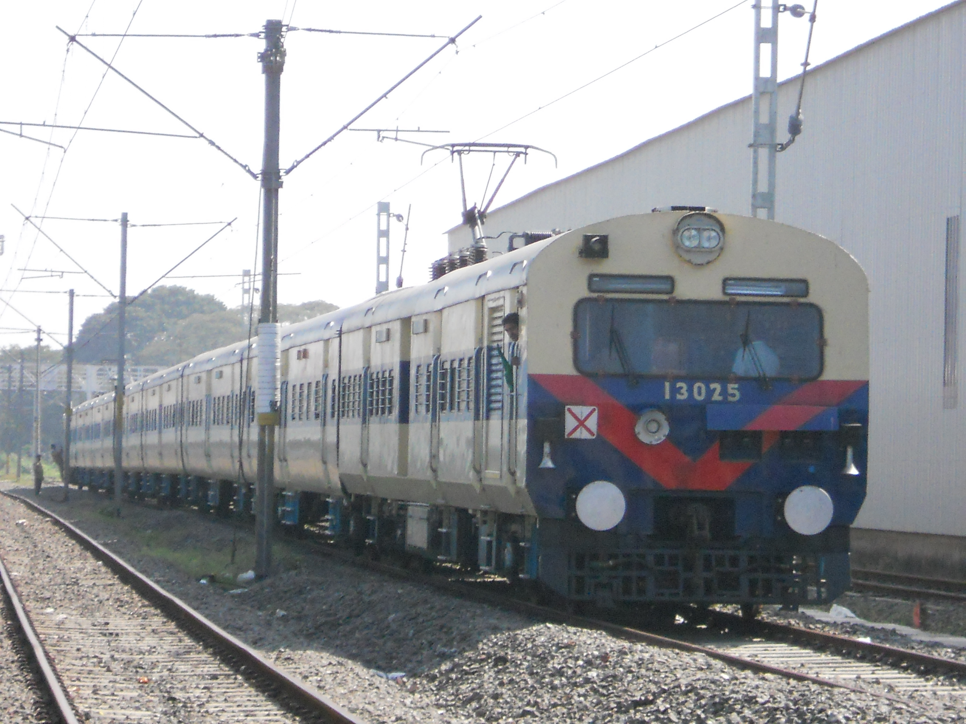 MEMU at Kollam.MEMU is a commuter rail system in India operated by the Indian Railway